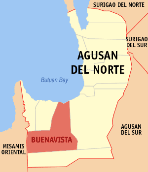 Map of the Agusan del Norte showing the location of Buenavista